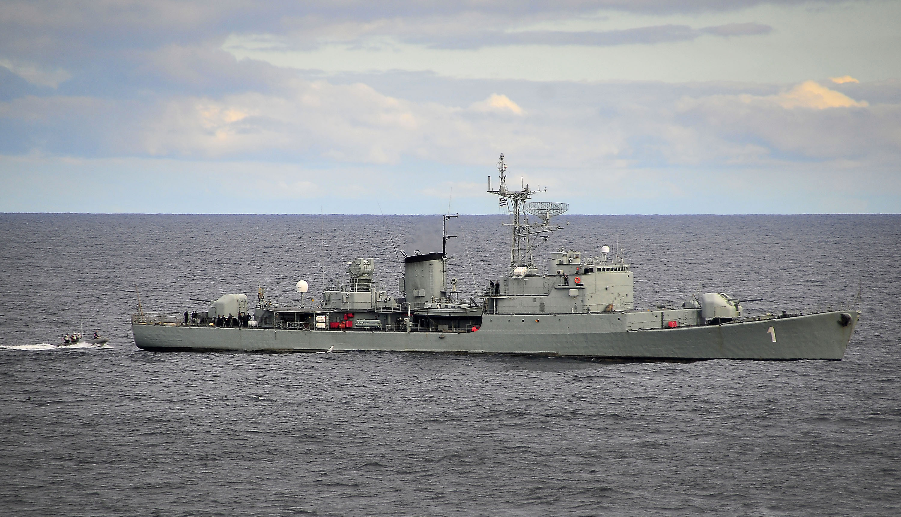 ATLANTIC OCEAN (March 7, 2010) A rigid-hull inflatable boat assigned to the guided-missile cruiser USS Bunker Hill (CG 52) approaches the Uruguayan navy frigate Uruguay (ROU 1) for a passenger transfer. Uruguay, Bunker Hill, and the aircraft carrier USS Carl Vinson (CVN 70), are participating in Southern Seas 2010, a U.S. Southern Command-directed operation that provides U.S. and international forces the opportunity to operate in a multi-national environment. (U.S. Navy photo by Mass Communication Specialist 2nd Class Daniel Barker/Released)